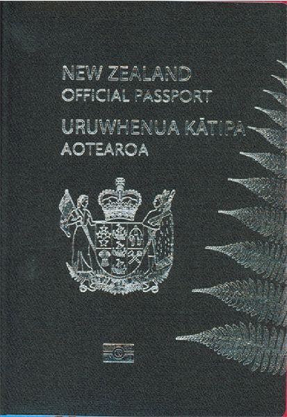 Front cover of New Zealand Official Passport